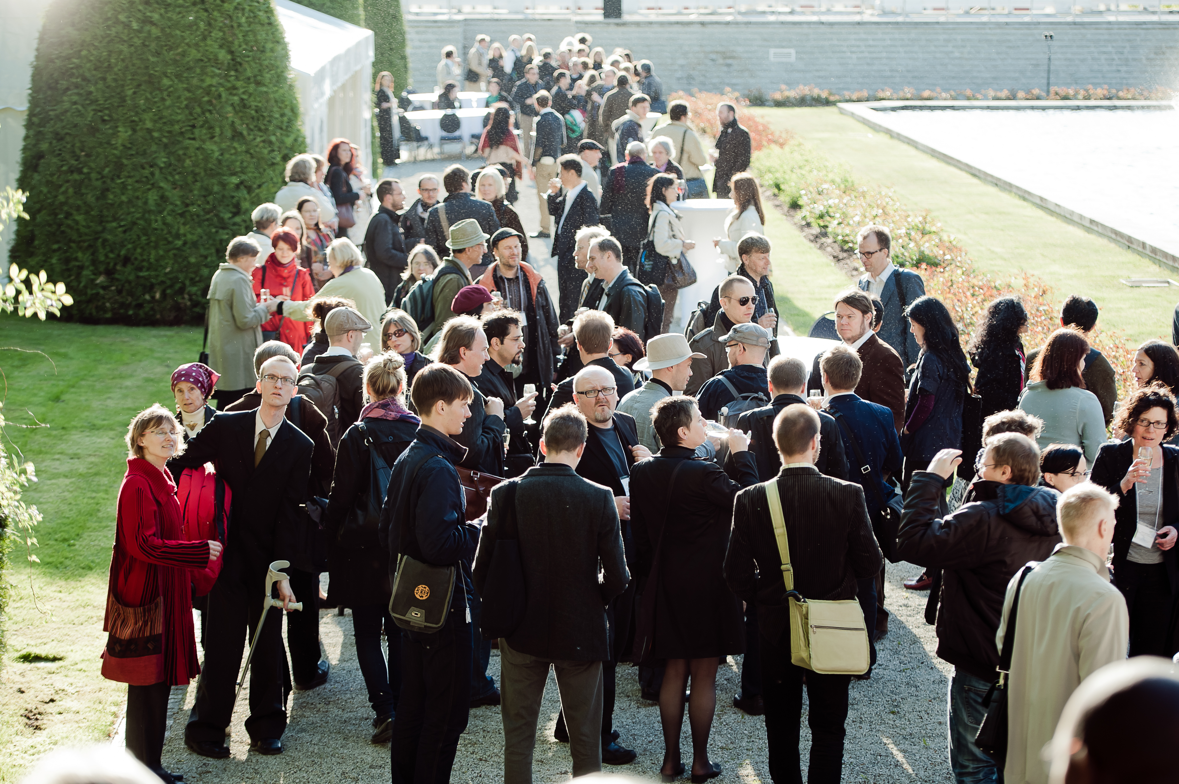 Reception at the 36th Annual Conference of the Association of Philosophy and Literature in Tallinn, Estonia.